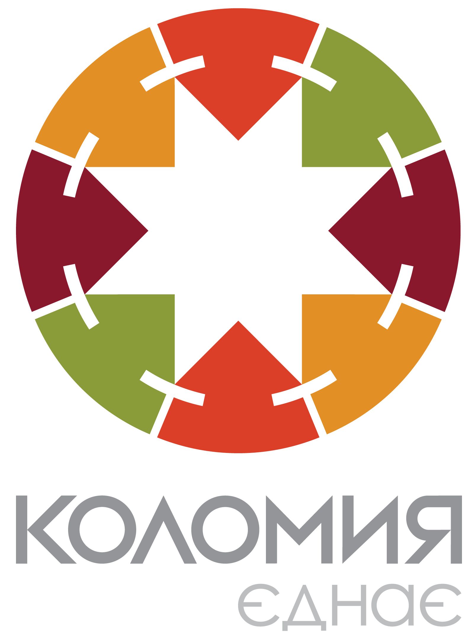 Logotype of Kolomyia